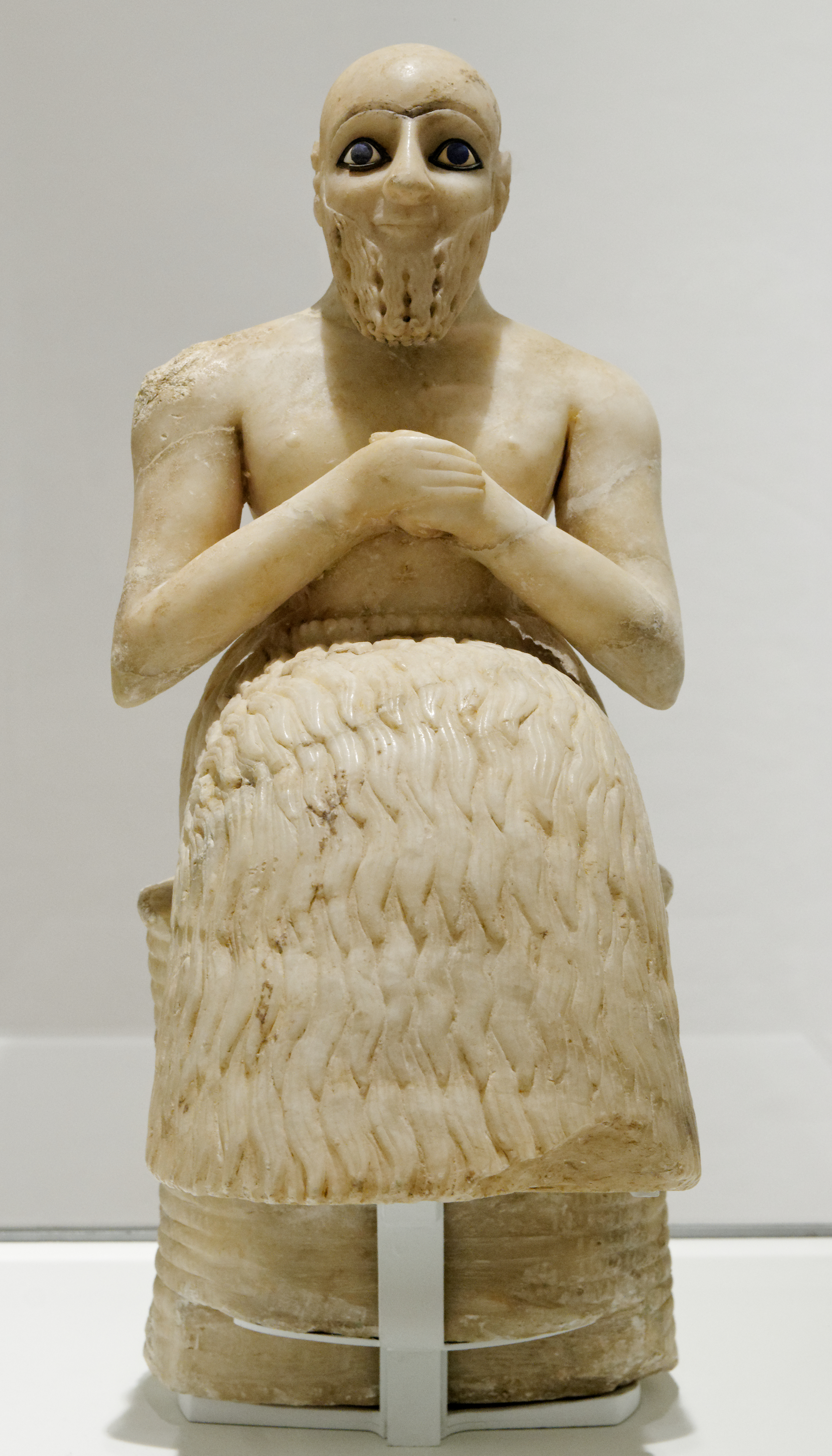 Statue of Ebih-Il, intendant, Early Dynastic.